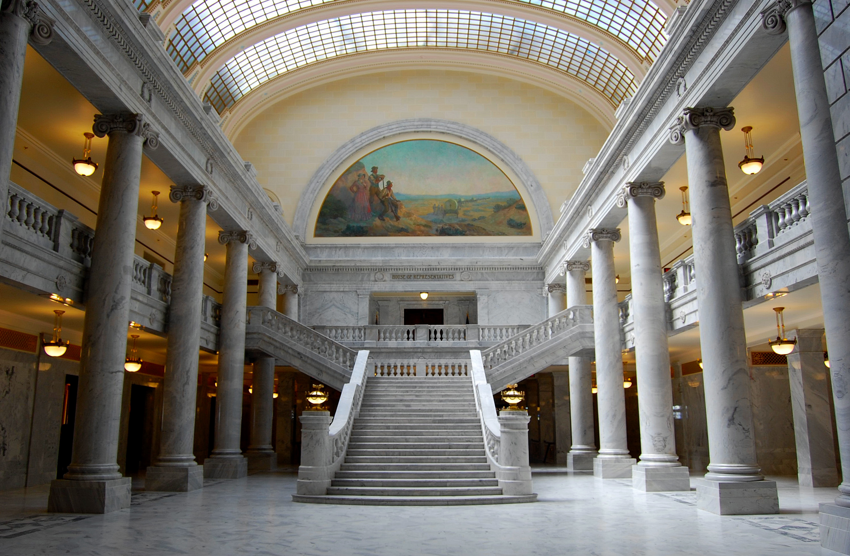 Interior of Utah State Capitol